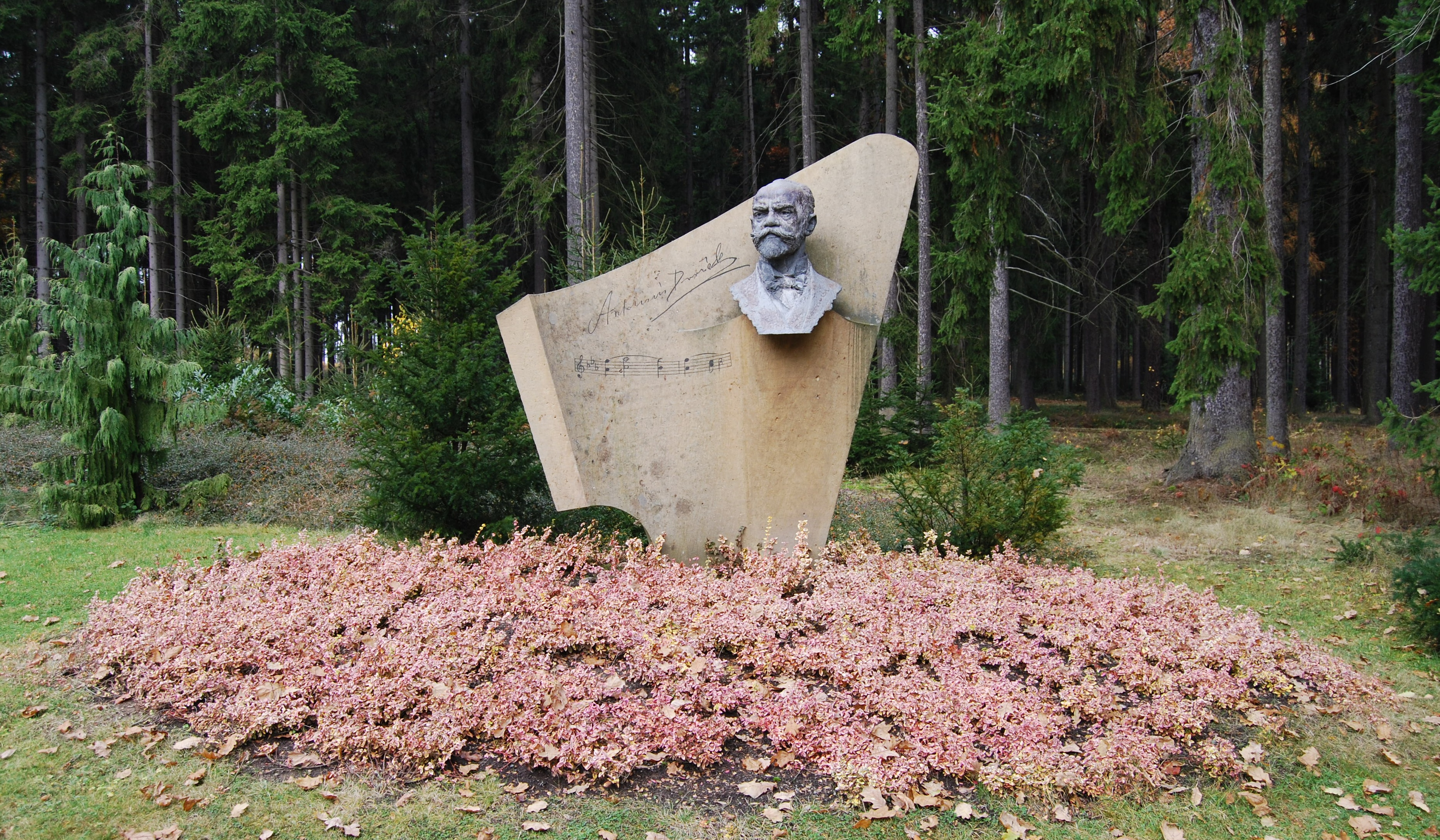 Monument of Antonín Dvořák in Vysoká u Příbramě in Příbram District, Czech Republic.